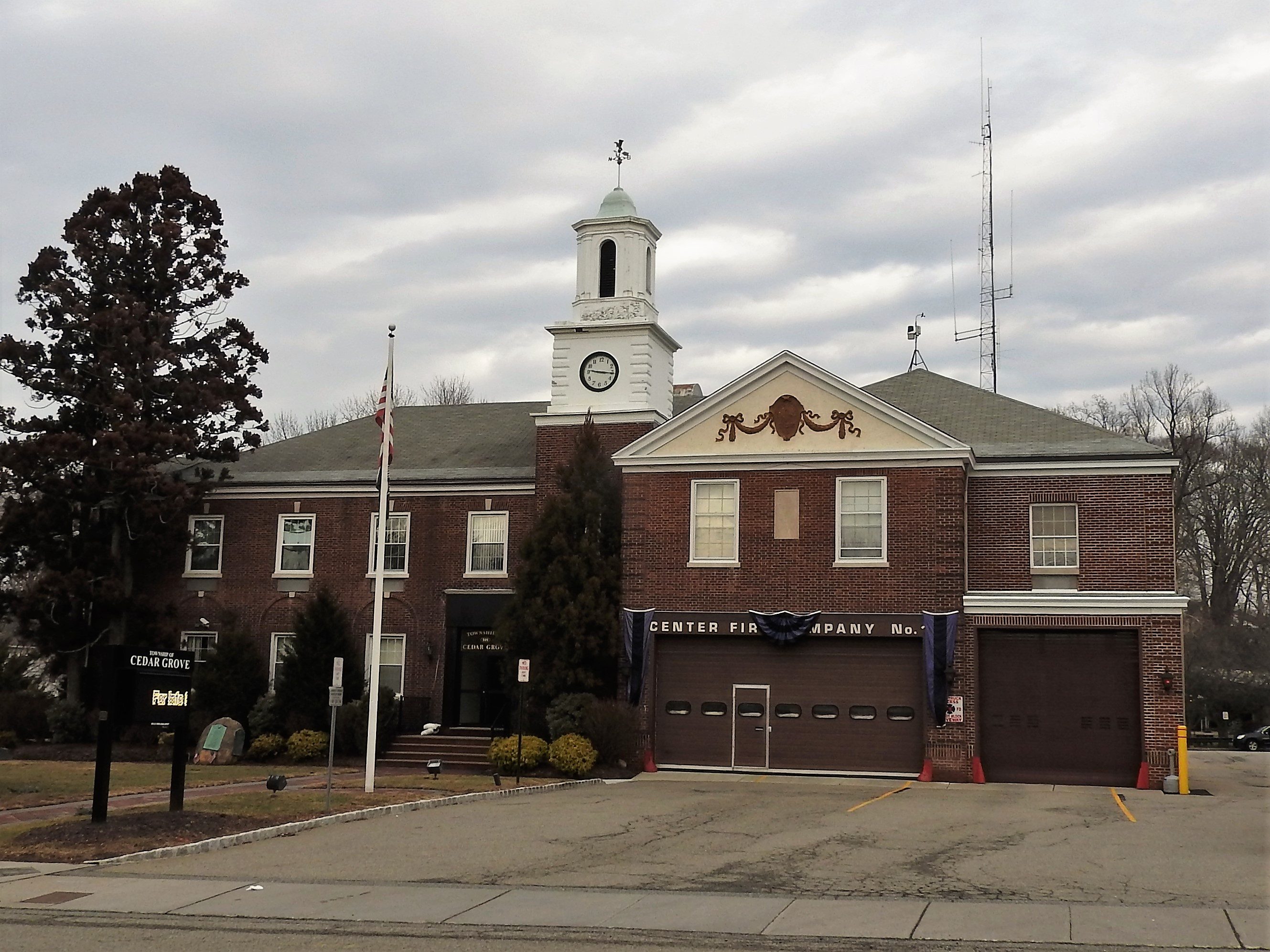 Looking northeast across Pompton Avenue at Cedar Grove Town Hall and Center Firehouse on a cloudy afternoon